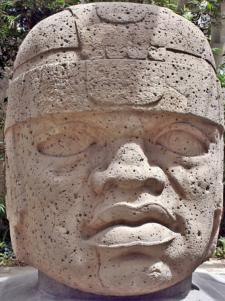 Olmec head or colossal head labeled as number 1 in the Xalapa's museum of Antropology. It is also known as el rey (the king) It was found in San Lorenzo Tenochtitlán (name of the archeological site, usually shortened to San Lorenzo), located at Texistepec, State of Veracruz, México. It dates from 1200 to 900 years b.C. and is 2.9 meters high and 2.1 meters wide.